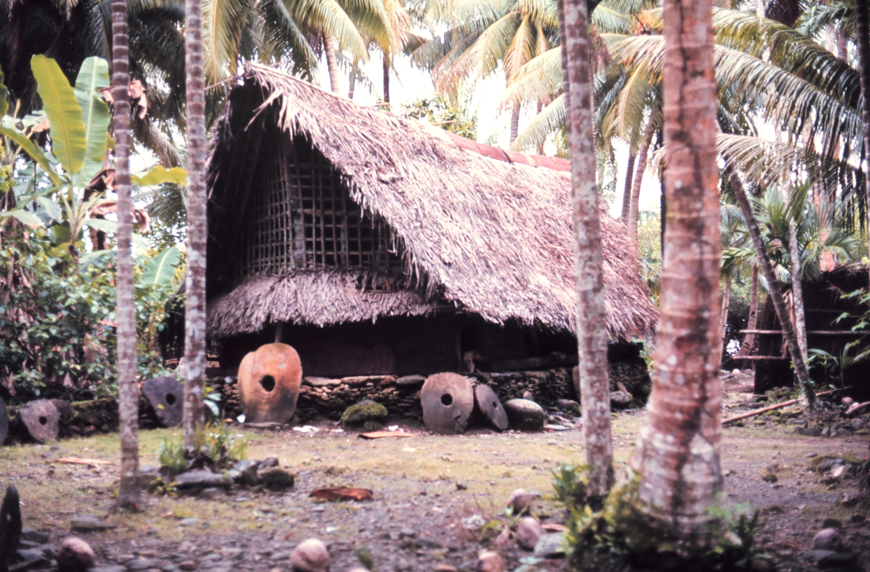 Native home with Yapese money stones indicating great wealth. Stones were mined on Palau and carried by outrigger canoe 300 miles. Money stones are quarried from Aragonite